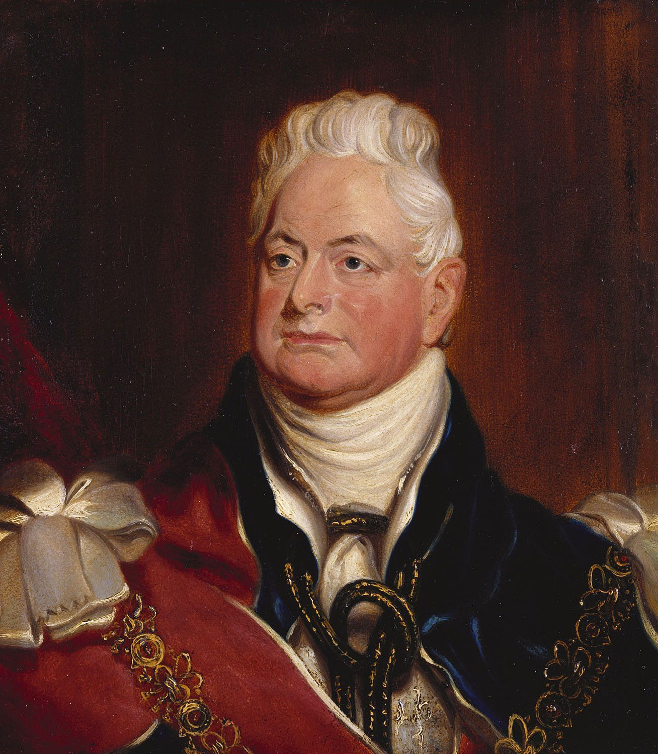 Portrait of William IV